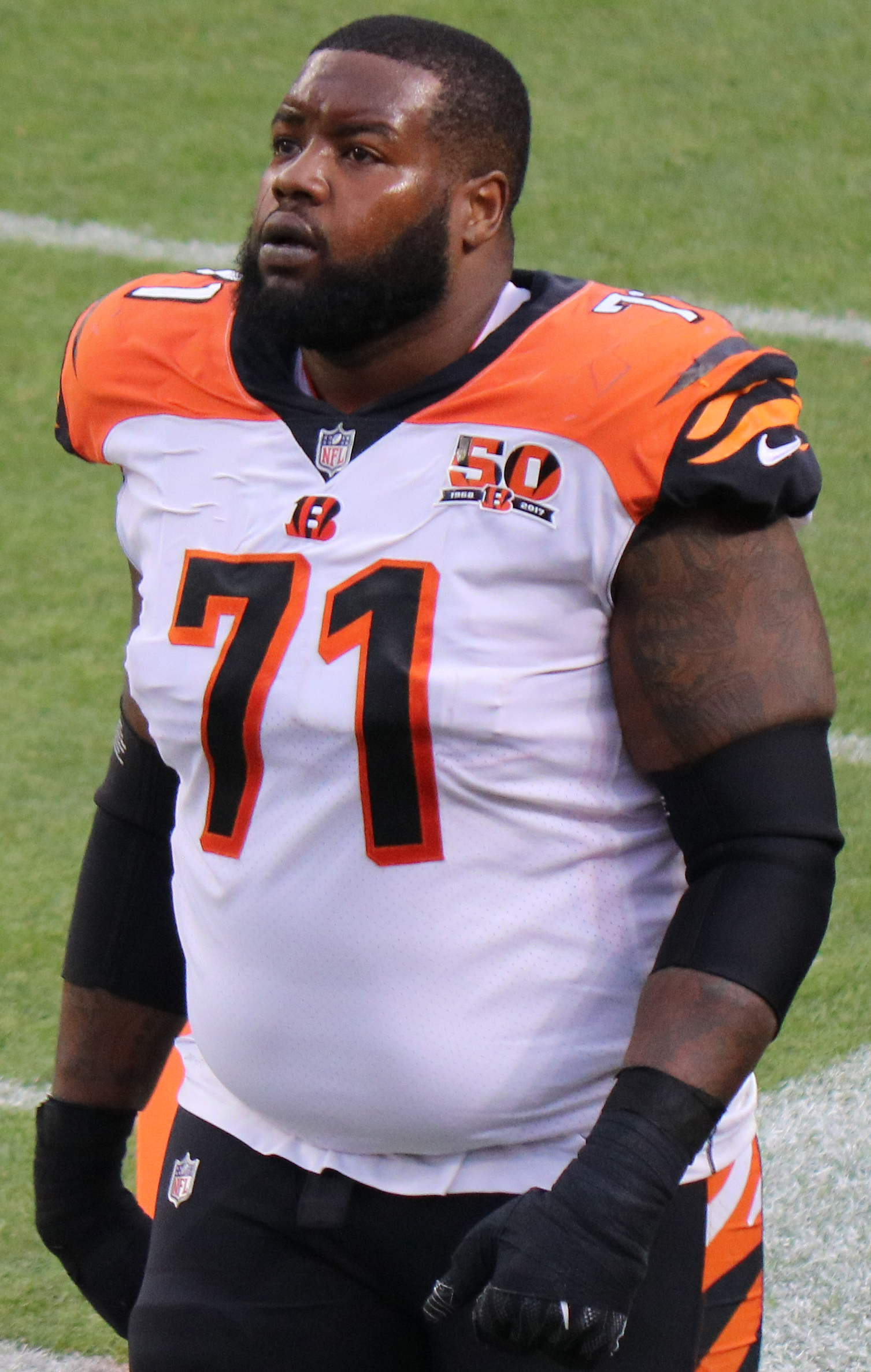 Andre Smith, a National Football League player.